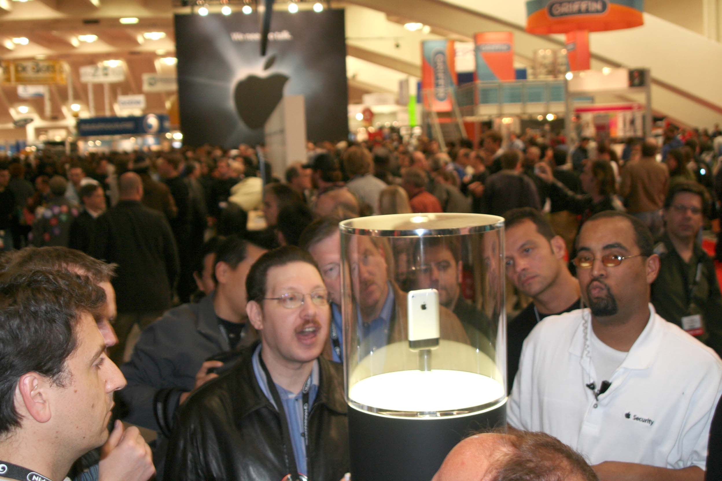 Attendees crowd the iPhone glass case on the floor of the Exhibit Hall.